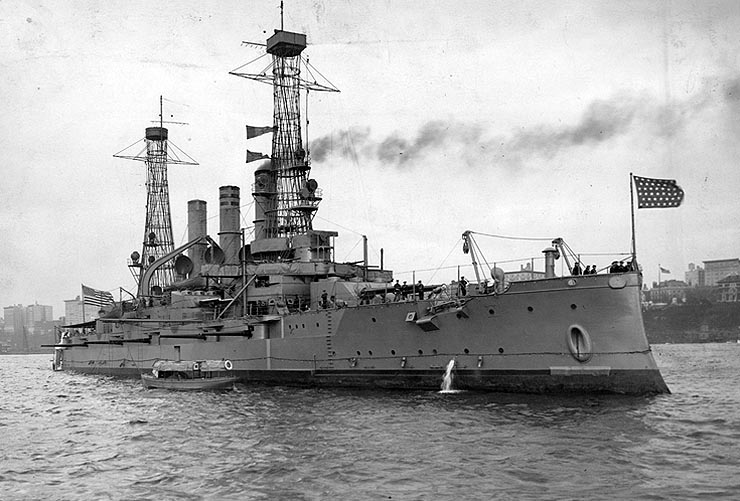 USS New Hampshire (Battleship # 25) Anchored in the Hudson River, off New York City, 1911. Original caption: “Photo # NH 60574 USS New Hampshire off New York City, 1911” — removed caption